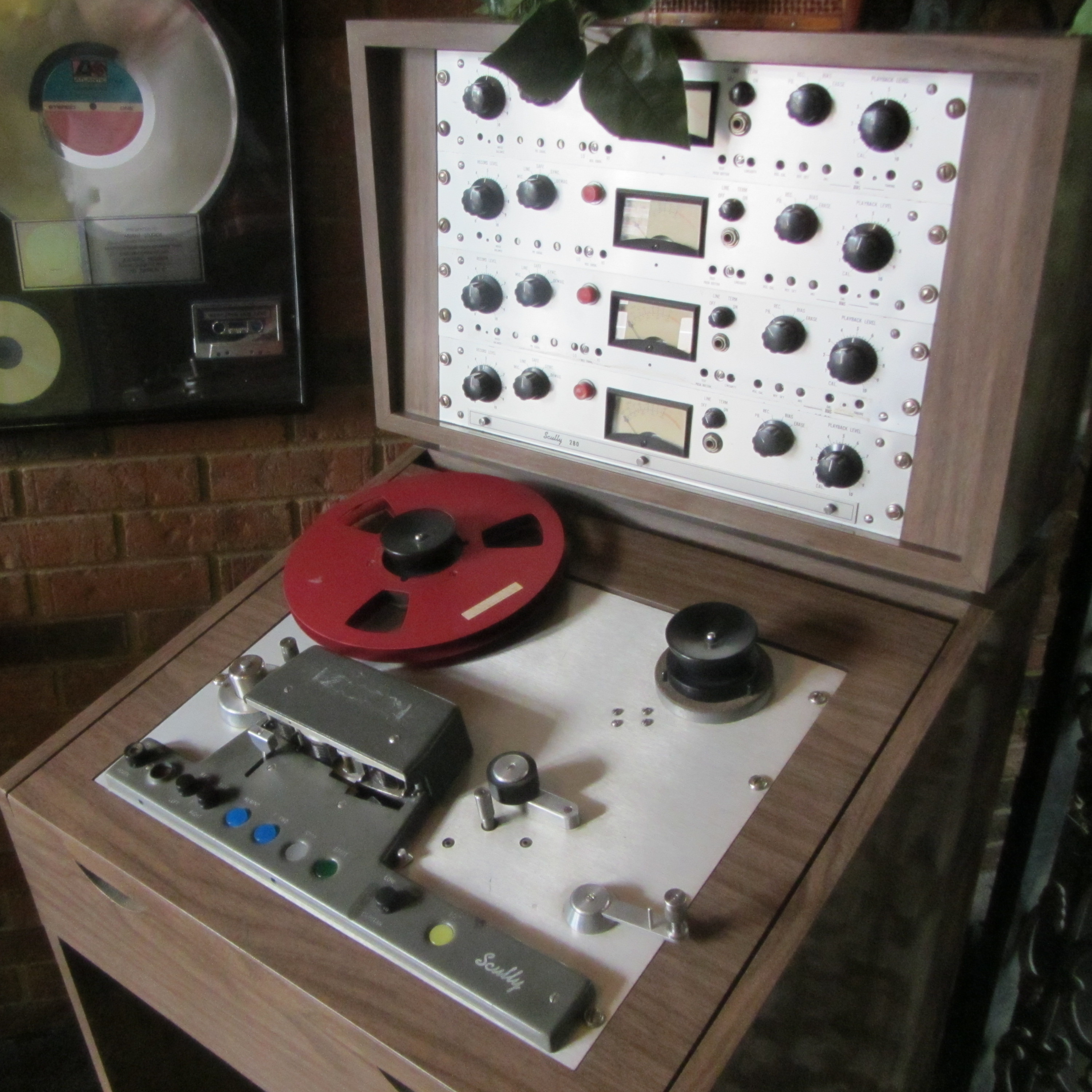 Scully 280 4-track tape recorder, Ardent Studio References Scully Recording Instruments Corporation. Reel to Reel Recorder Manufacturers. Museum of Magnetic Sound Recording, Phantom Productions, Inc..